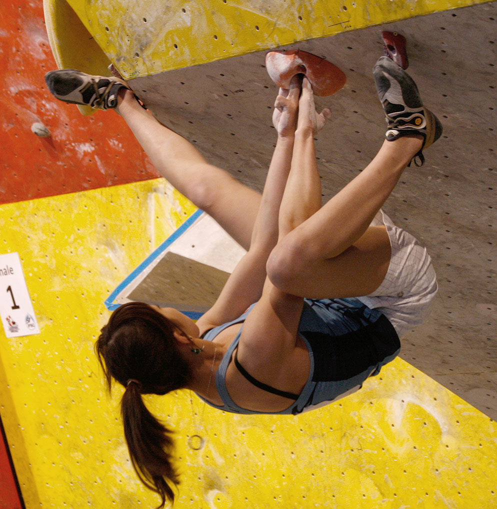 Akiyo Noguchi during the finals at the IFSC Boulder Worldcup Vienna 2010.